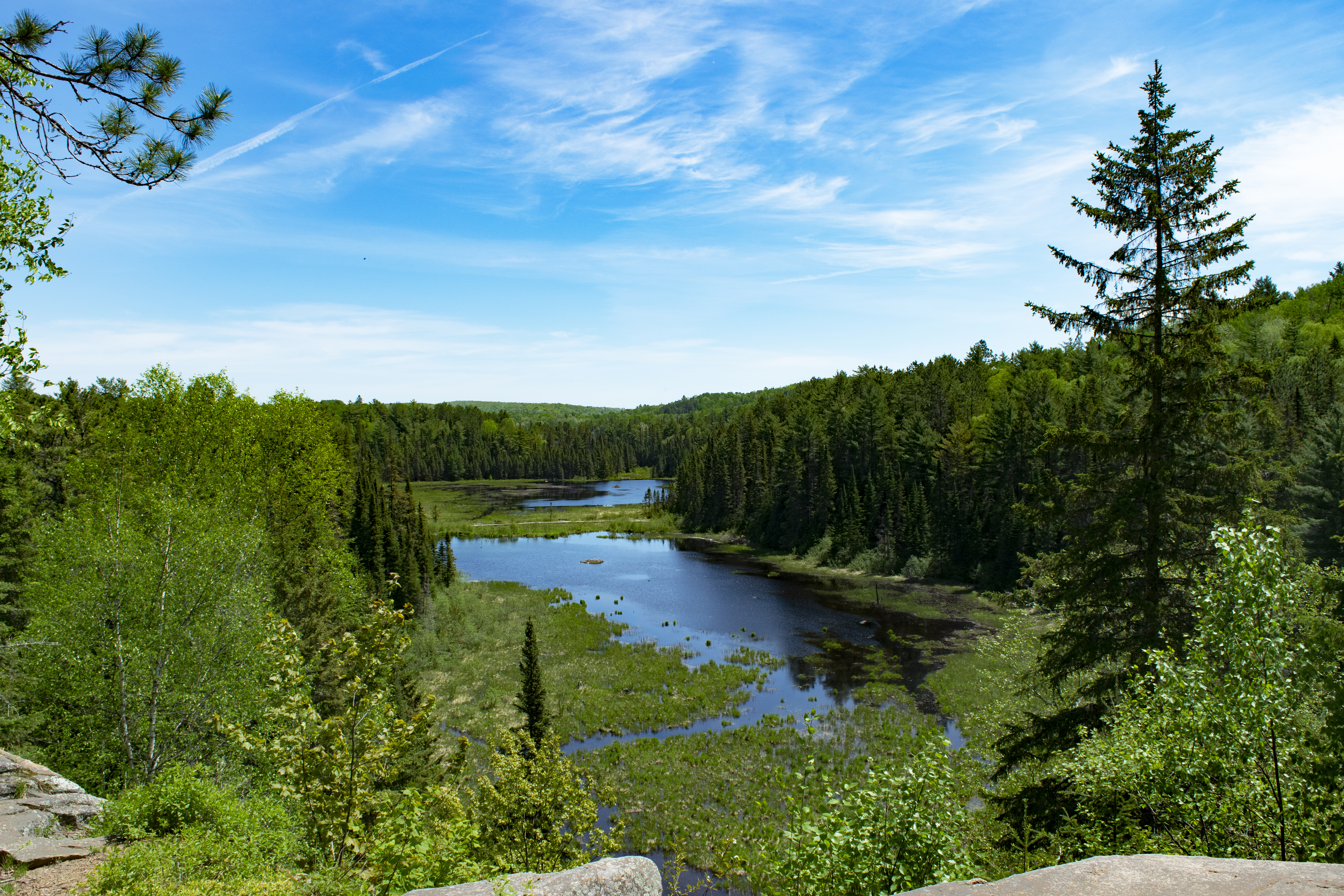 Shot taken from the top Beaver pond trail showcasing Fascinating ponds created by Beavers in Algonquin Provincial Park, Ontario This photo was taken in a protected area in Canada, Wikidata item Algonquin Provincial Park (Q1543478)